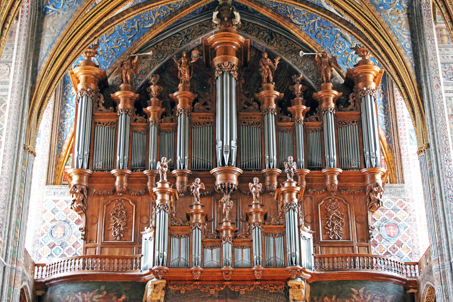 Albi, Sainte-Cécile cathedral, main organ